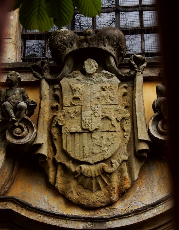 Ledčice, church of Saint enceslaus, Lobkowicz' coat-of-arms